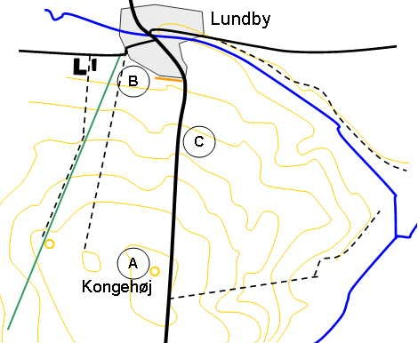 Skitse over området syd for Lundby, hvor kampen i 1864 fandt sted. Sketch of the area south of Lundby, where the affair took place in 1864.